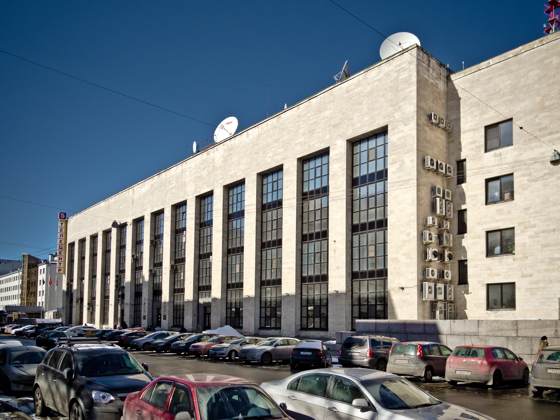 Television Broadcasting Center of Saint Petersburg. "Petersburg - 5th Channel" Broadcasting Company headquarters. Chapygina street, building 6.